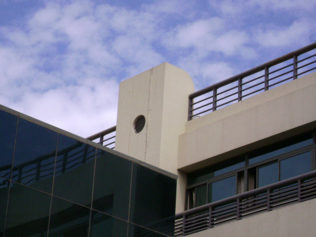 Taken from Sheraton Heliopolis, Nozha Town The building consists of two parts joined together by a joint. It avoids the internal force that is resulted from high pressure in the summer and the low pressure in Winter and caused expanding from heat, and Shrinking from cooling